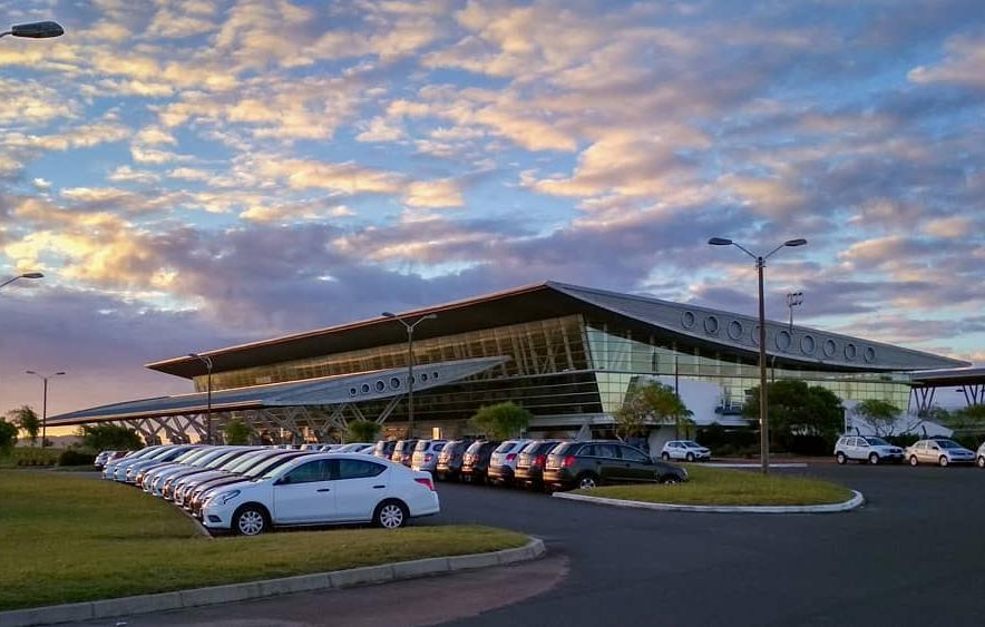 Aeroport Laguna del Sauce, Punta del Este, Uruguay